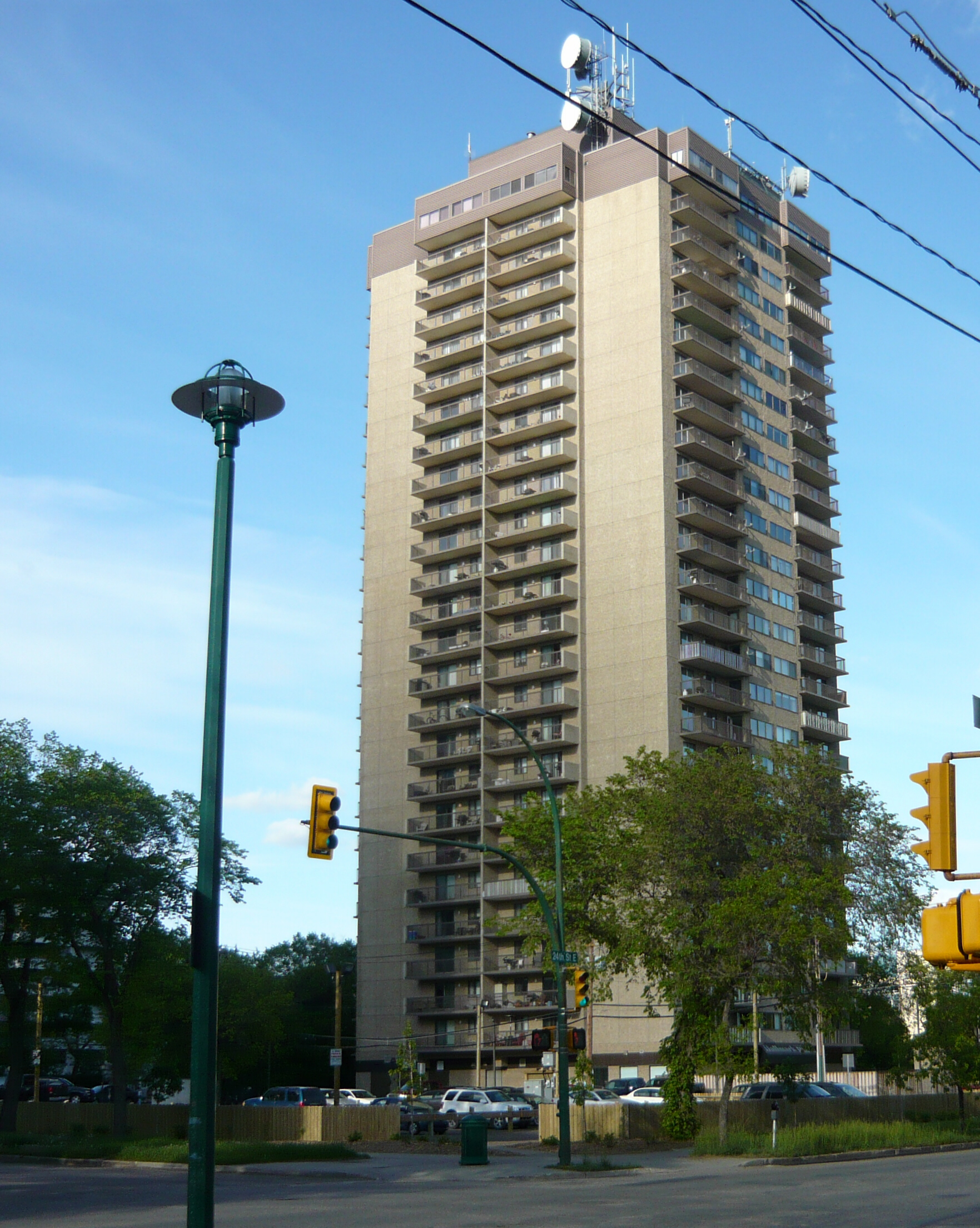 Hallmark Place, 311 Sixth Avenue North (at 24th Street), Saskatoon, Saskatchewan, Canada.